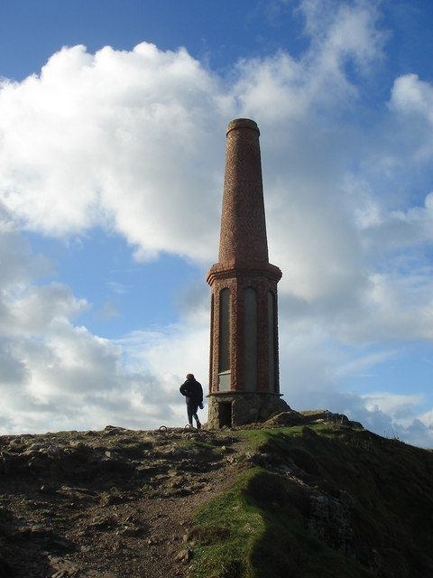 Heinz Monument A monument commemorating the purchase of Cape Cornwall for the nation by H.J.Heinz & Co. 1987. Subsequently given to the National Trust